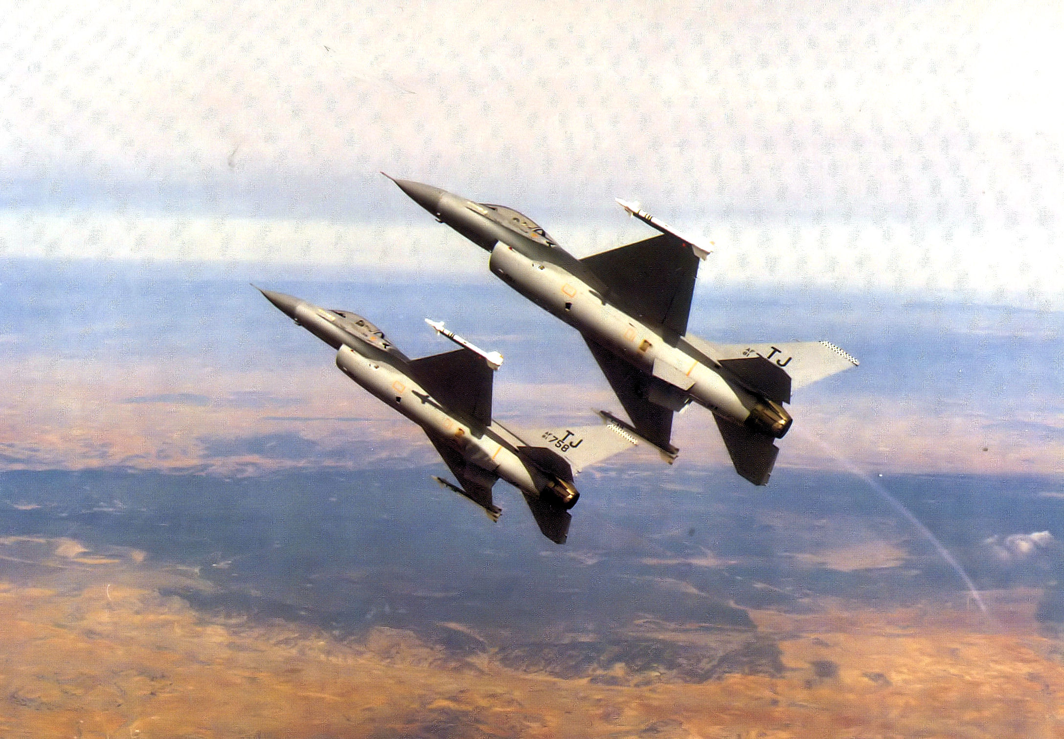 401st TFW F-16Cs Torrejon AB.